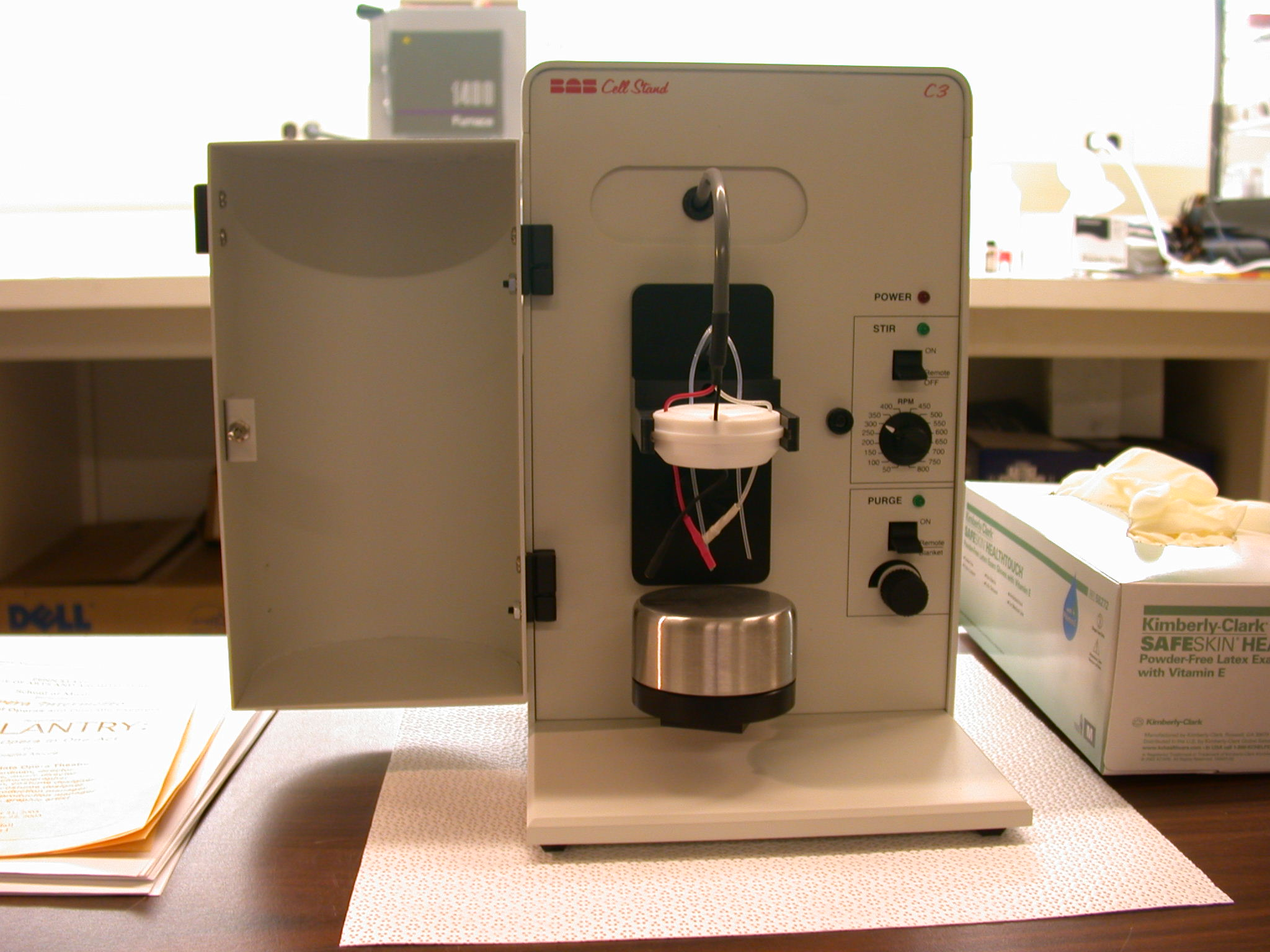 Cell stand for BASi Epsilon Potentiostat/Galvanostat base, as shown here. [1]